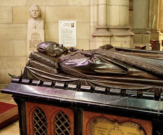 Austria, Linz, New Cathedral